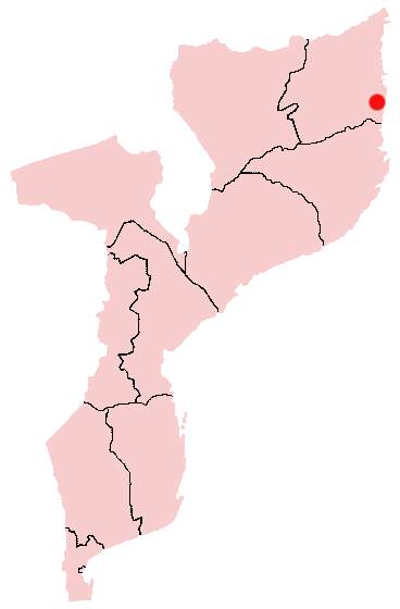 Map with the geographical position of Pemba in Mozambique; created with the GIMP.